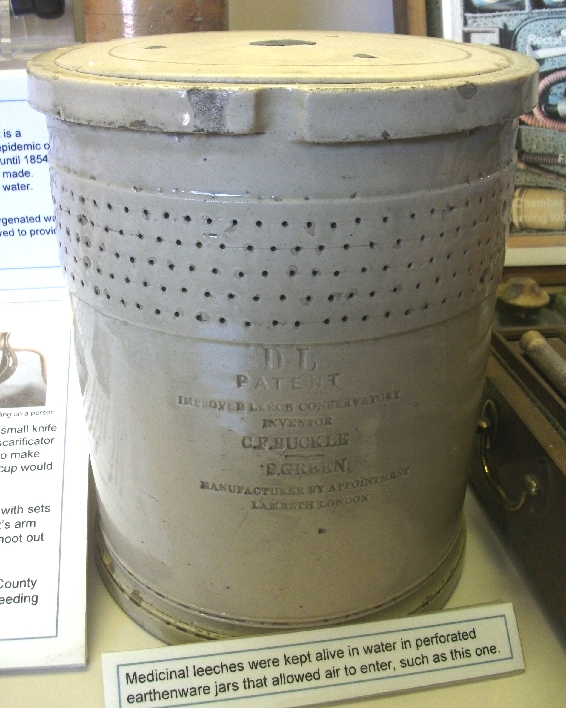 A jar for keeping medical leeches, on display in Bedford Museum.